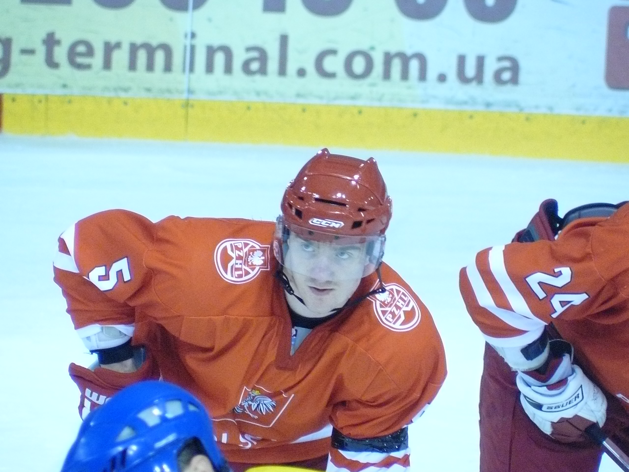 Defender Paweł Dronia #5 of the Poland during the friendly game against the Ukraine on April 10, 2010 at the Terminal Arena in Brovary, Ukraine. Ukraine won the game 2:1.